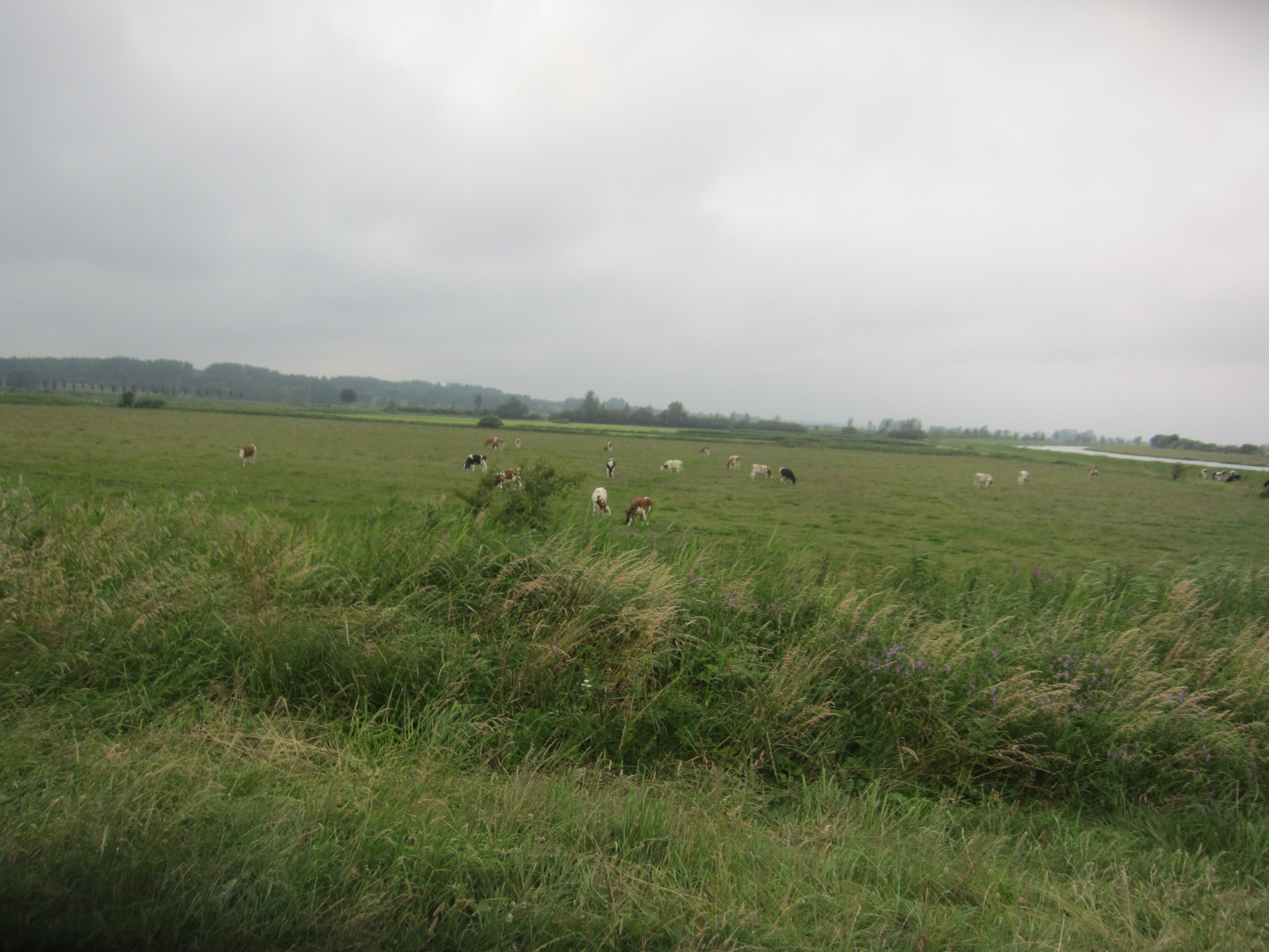 Pasture in Süderhöft